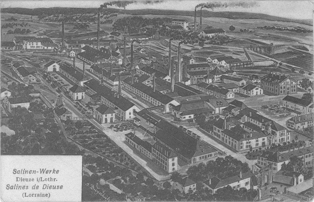 A view of Dieuze in the early 20th century (Dieuze was part of the territory "Alsace-Lorraine" then annexed to Germany). The "salines"